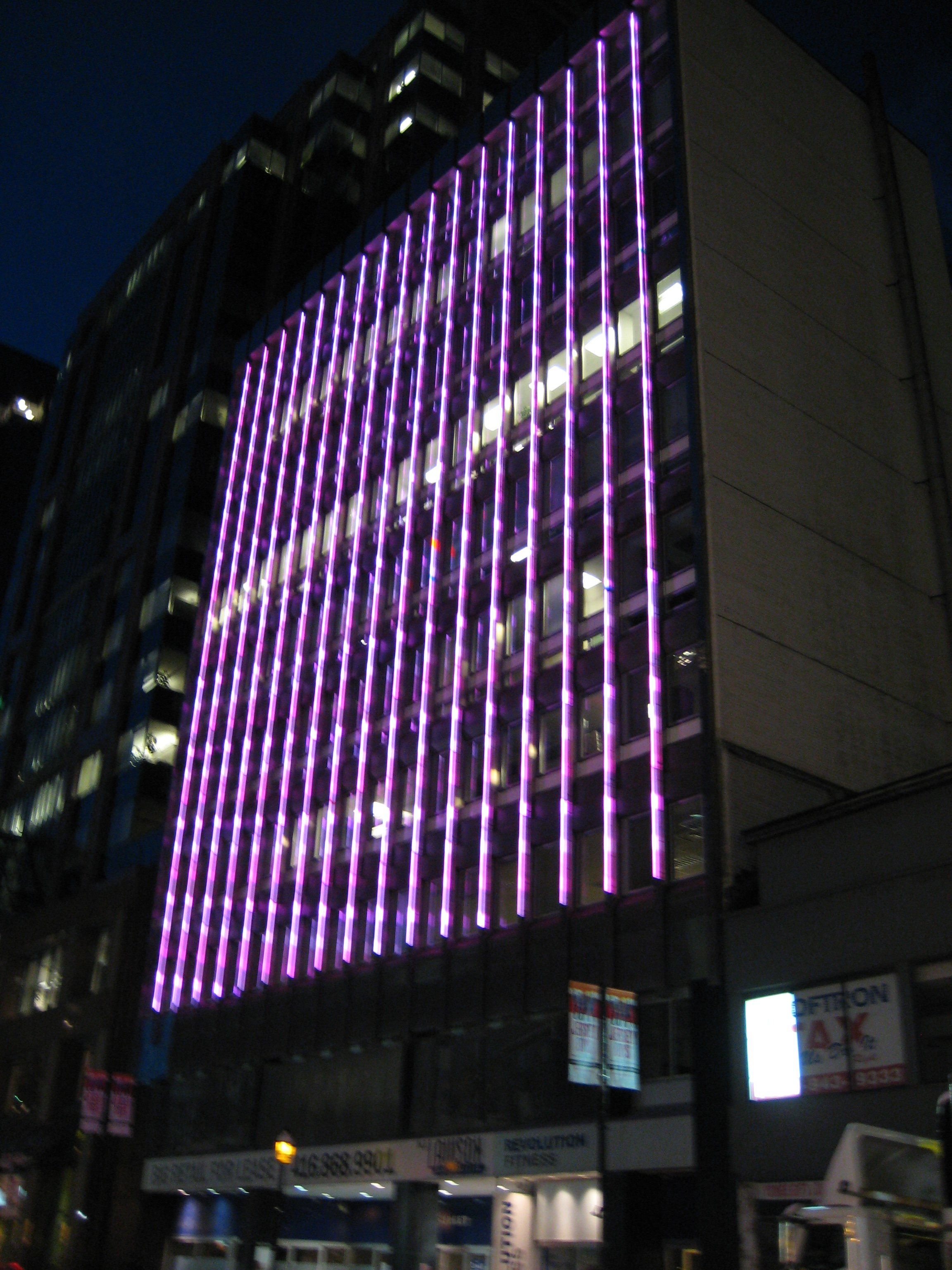 Arcade Building (Toronto)